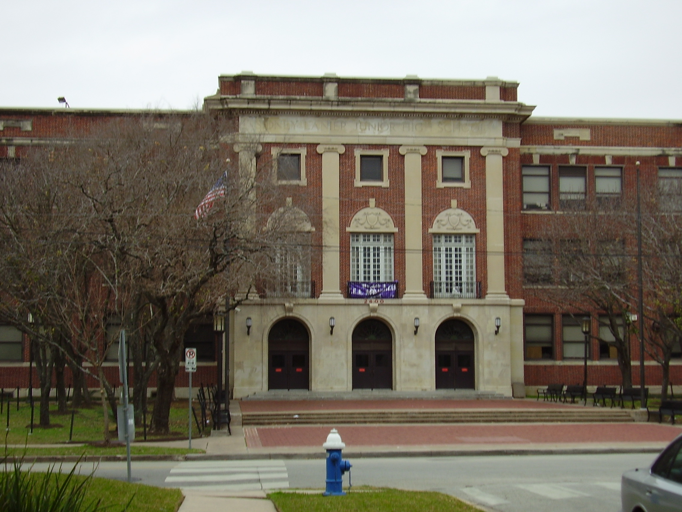 Sidney Lanier Middle School in Houston